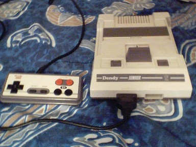 Dendy Junior